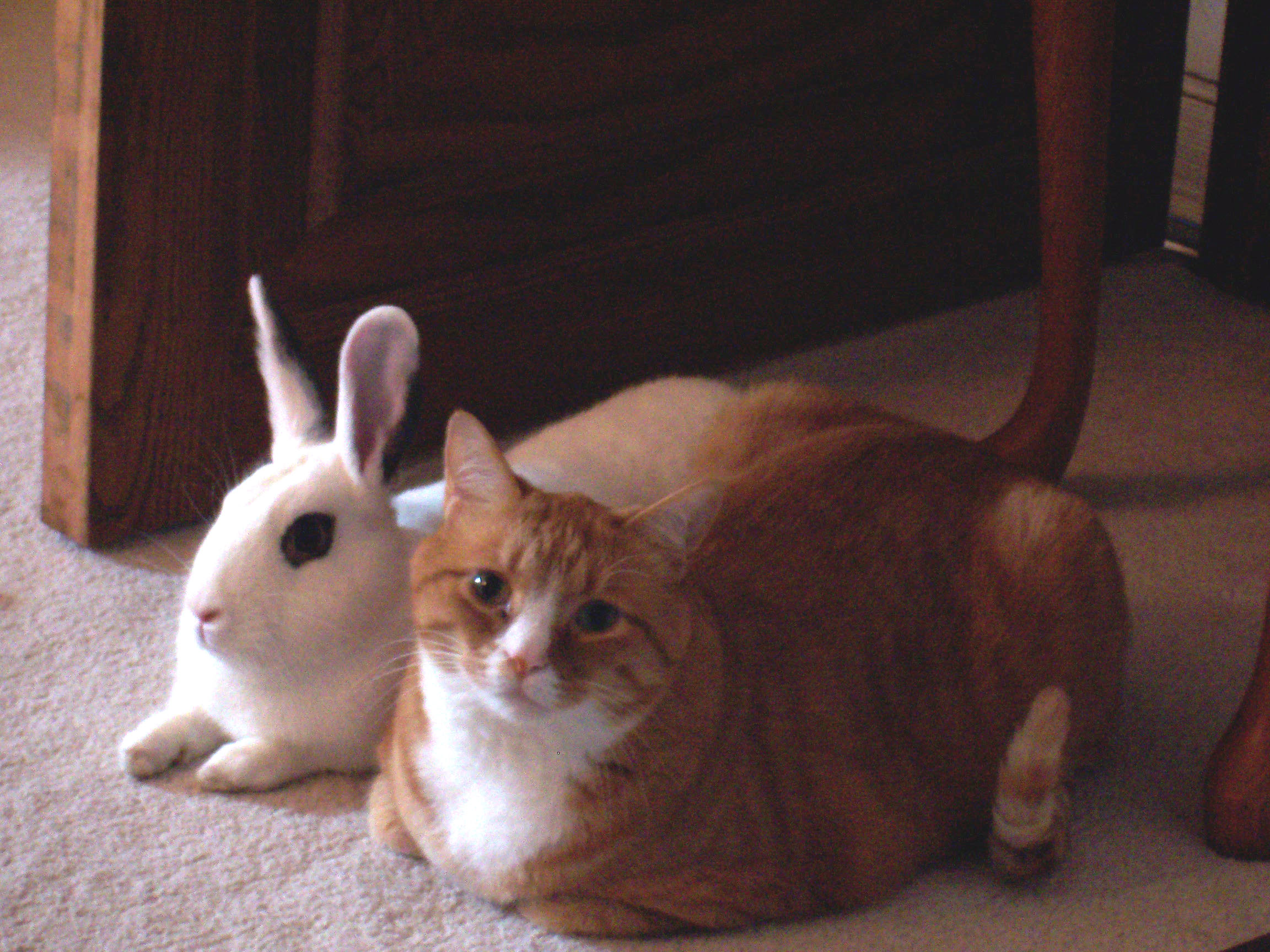 American Short Hair Tabby cat (Julius) and Blanc de Hotot rabbit (Mopsy) sitting together